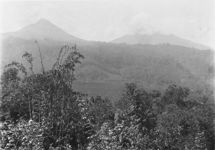 Mountains near Munduk